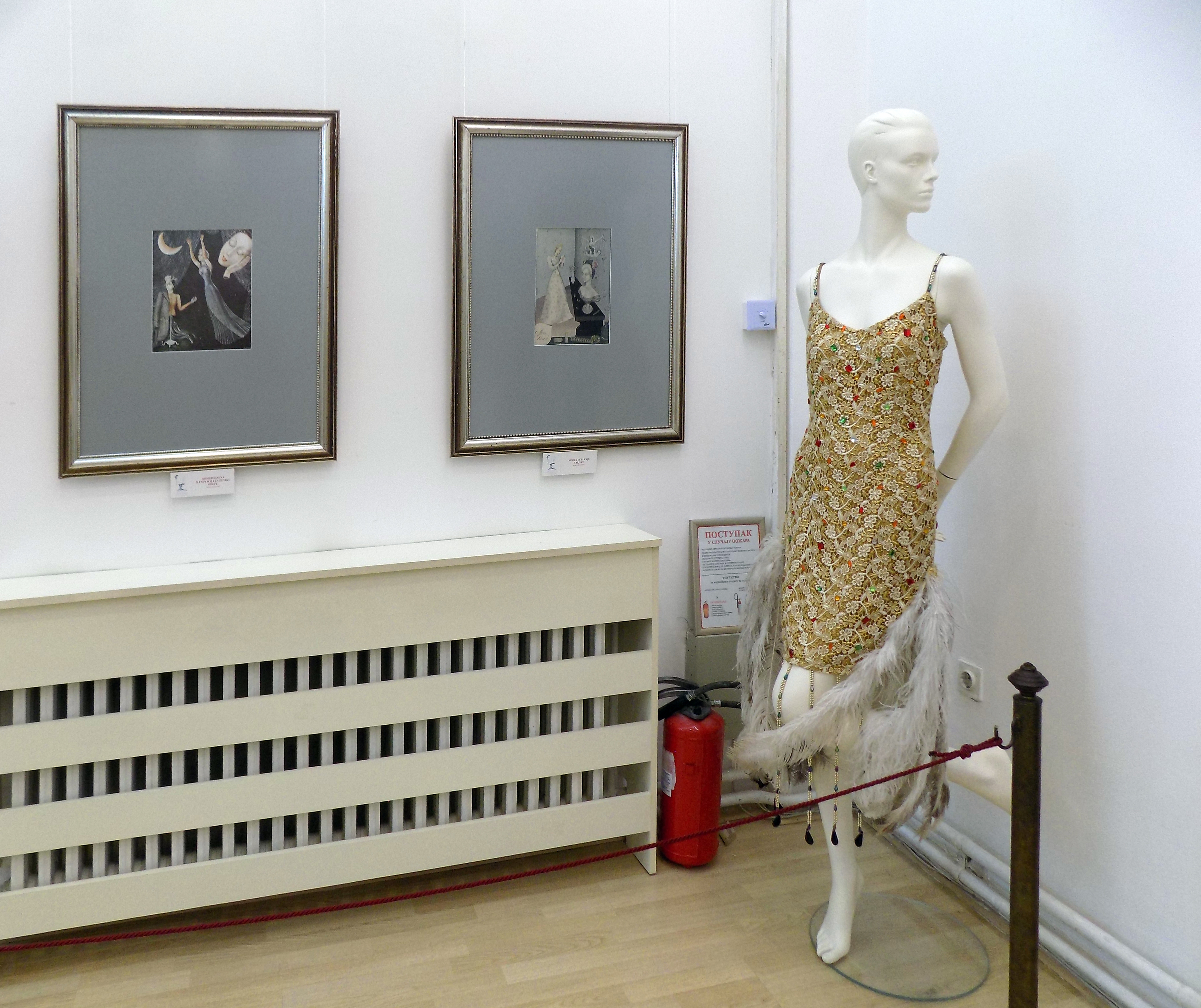 Milena Pavlović-Barili Gallery (Milena's home) - The front pages of Vogue and one of about twenty models that Milena created